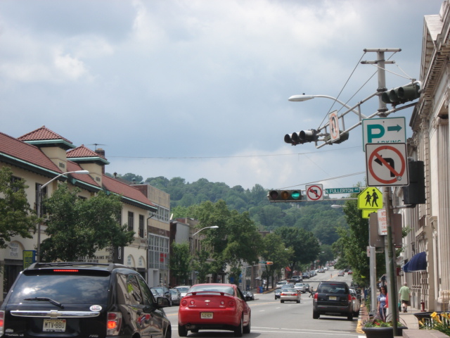 Bloomfield Ave Montclair NJ